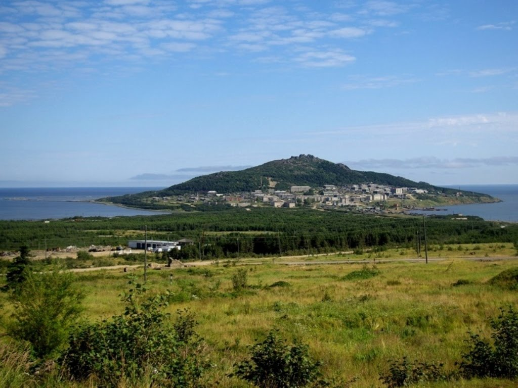 Lazarev, Khabarovsk Krai, Russian Far East